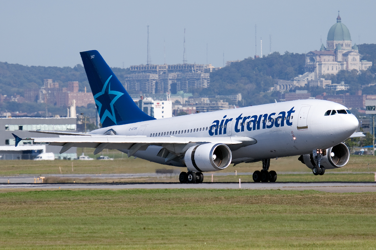 Air Transat Airbus A310 arriving from Barcelona at Montréal-Pierre Elliott Trudeau International Airport (YUL) in septembre 2009.